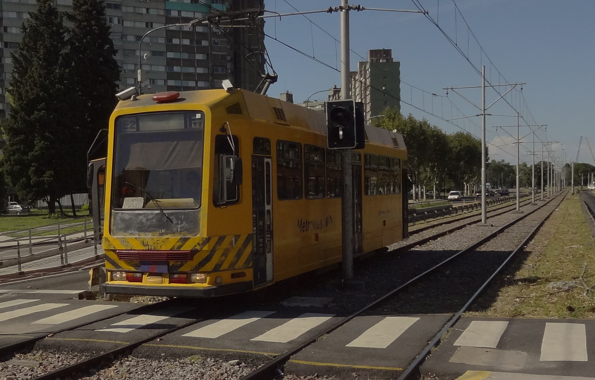 Version of the original file by Mauricio V. Genta, cropped to focus on the tram and its yellow livery.